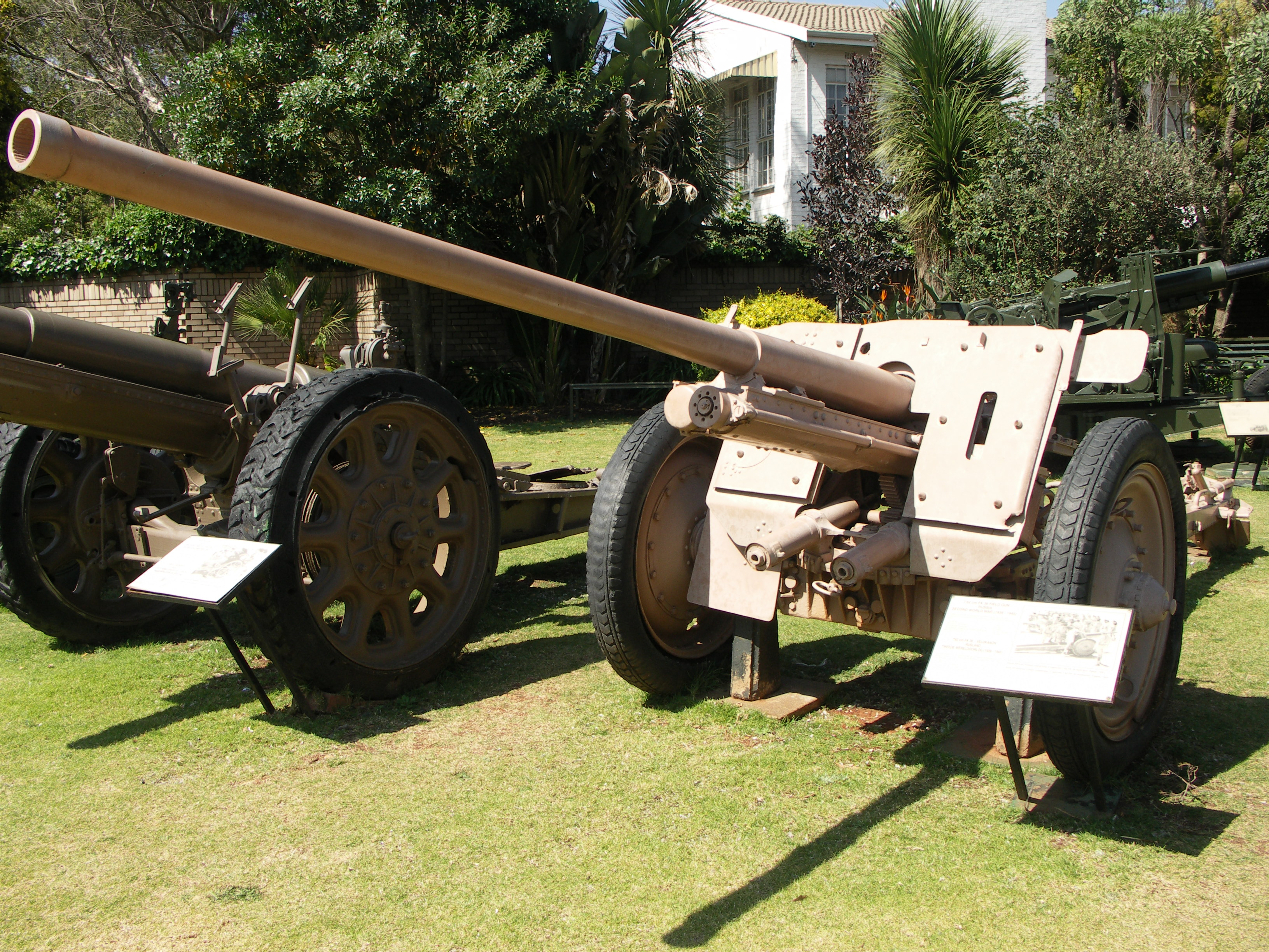 A 7.62mm FK 36 Russian WWII Field Gun